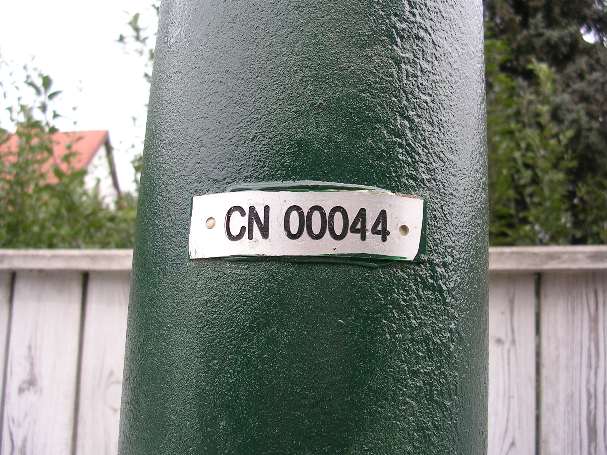 Čerčany-Vysoká Lhota, Prague-East District, Central Bohemian Region, the Czech Republic. A streetlamp sign.